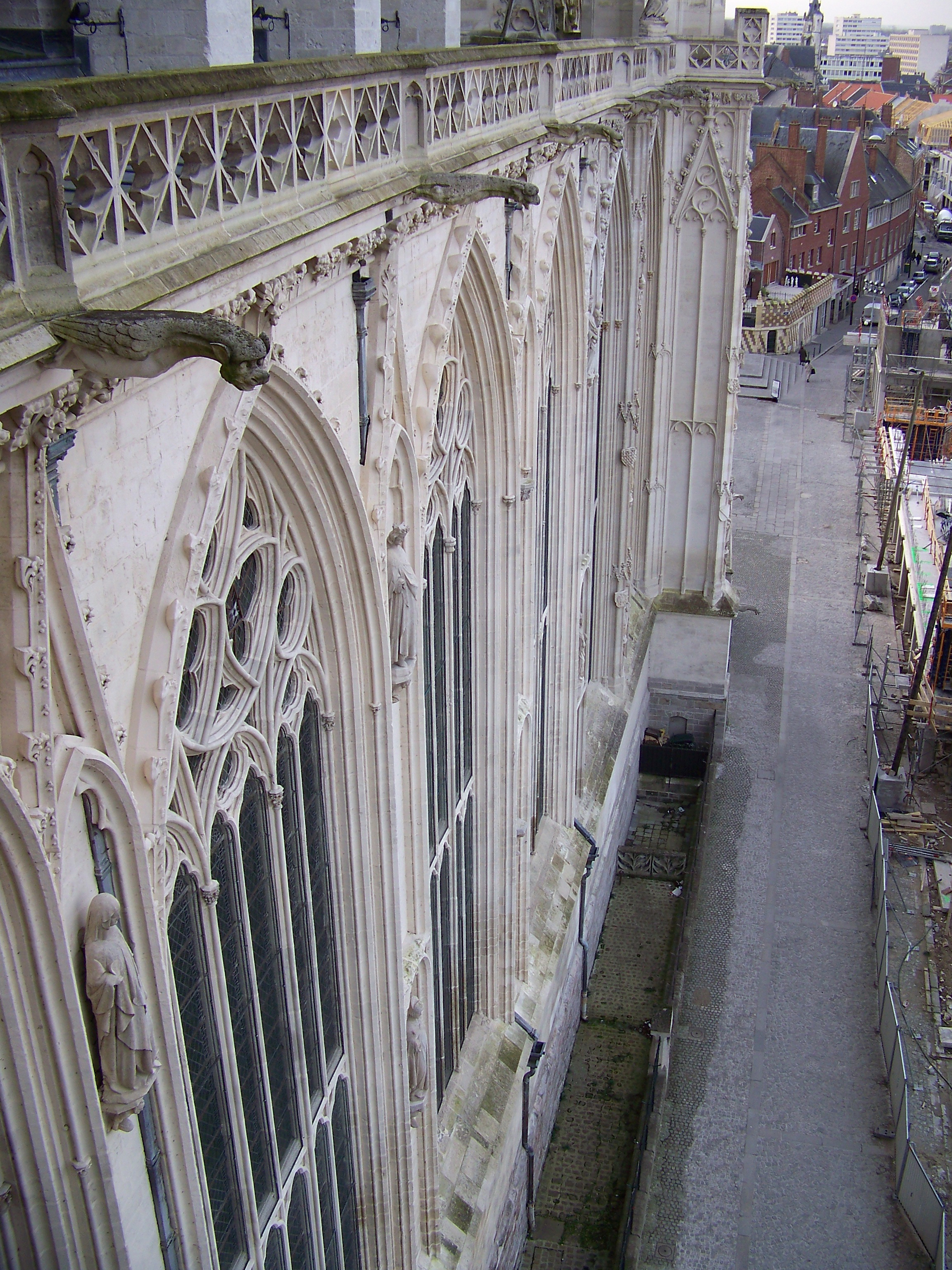 Great stained-glass windows of the cathedral Notre-Dame in Amiens, France